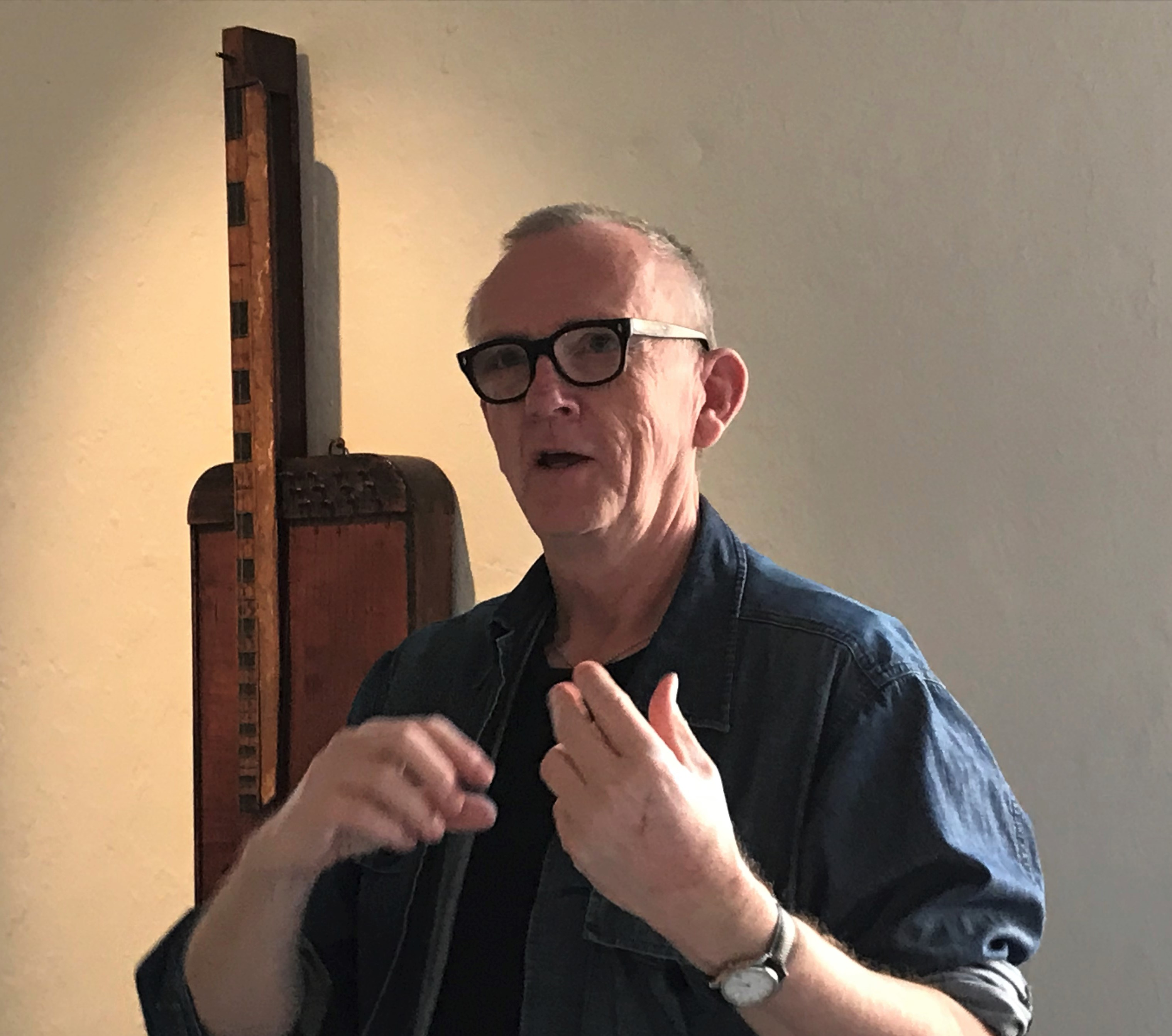 The Swedish artist Dan Wirén presenting his exhibition "Vehicles and Vessels" (February 7 - March 24, 2019) at the Färgfabriken kunsthalle in Stockholm on March 10, 2019.